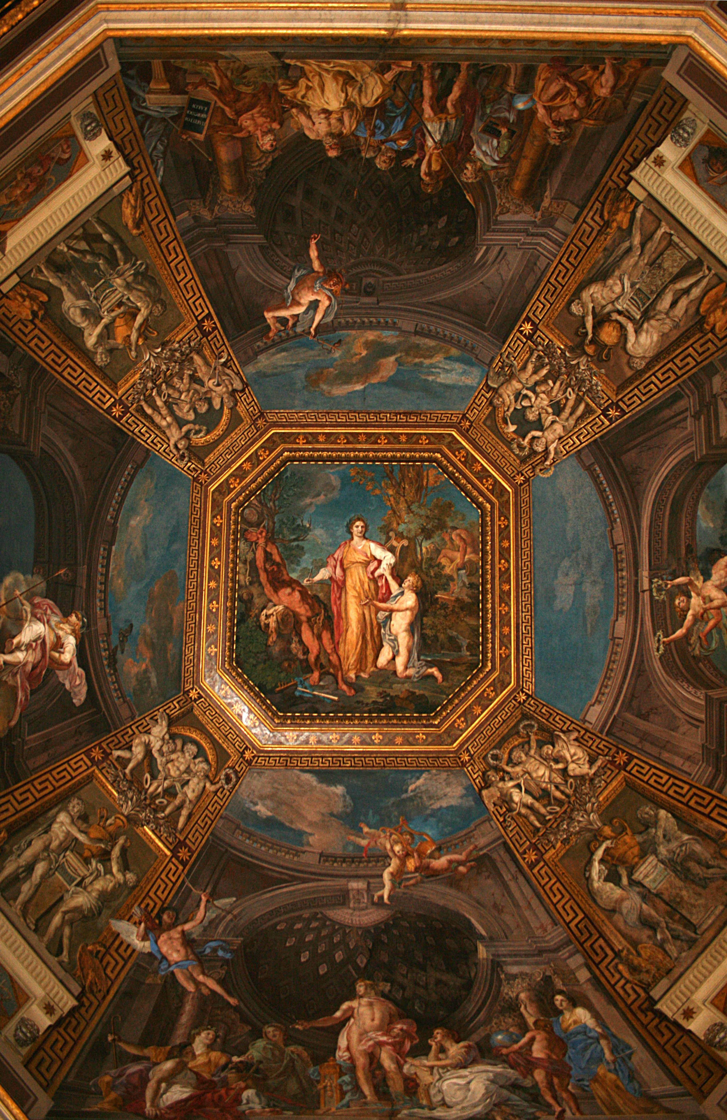 Fresco painted by Tommaso Conca adorning the Room of the Muses - Vatican Museums.